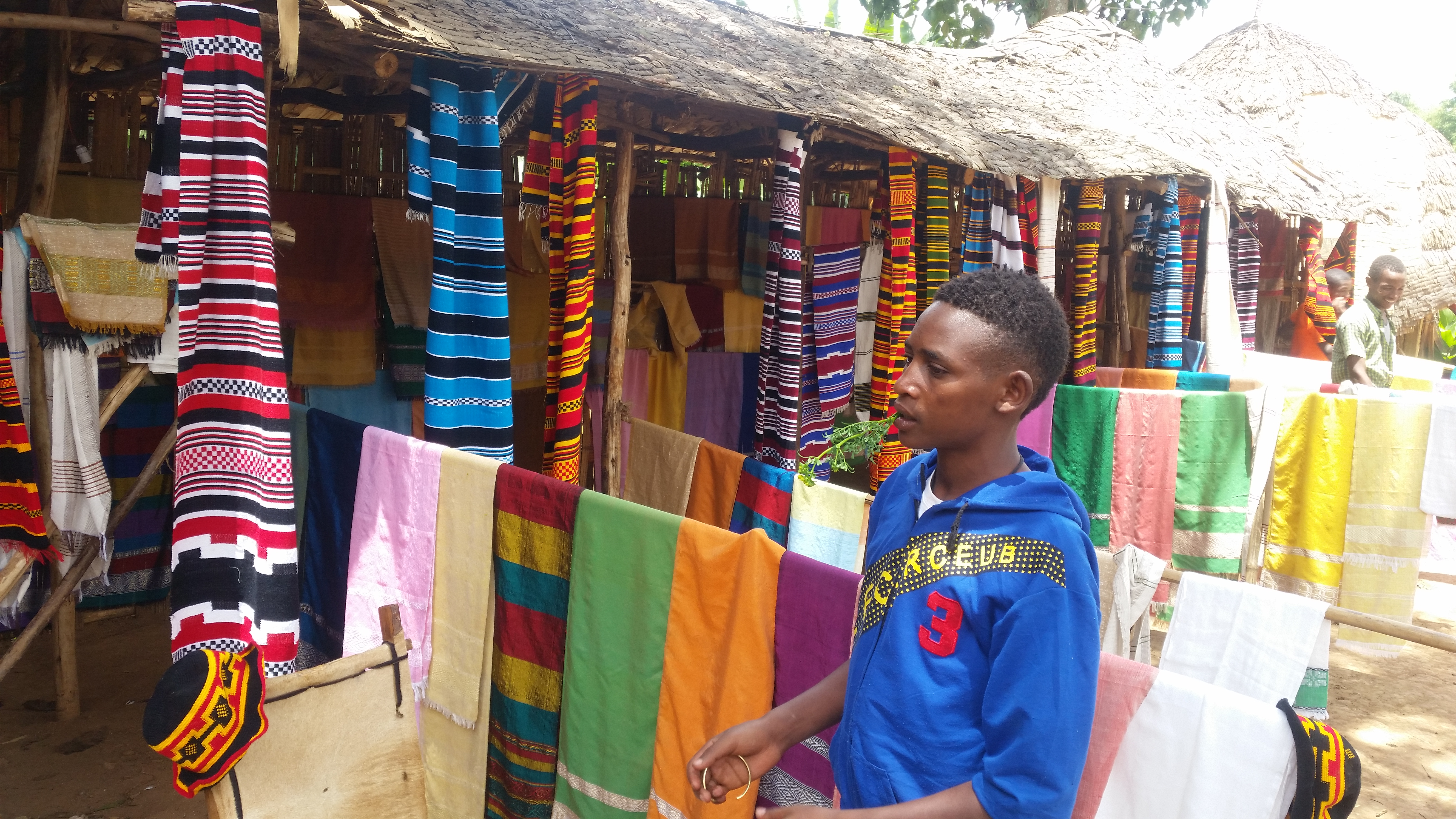 hand made clothes... This is an image of Cultural Fashion or Adornment from Ethiopia